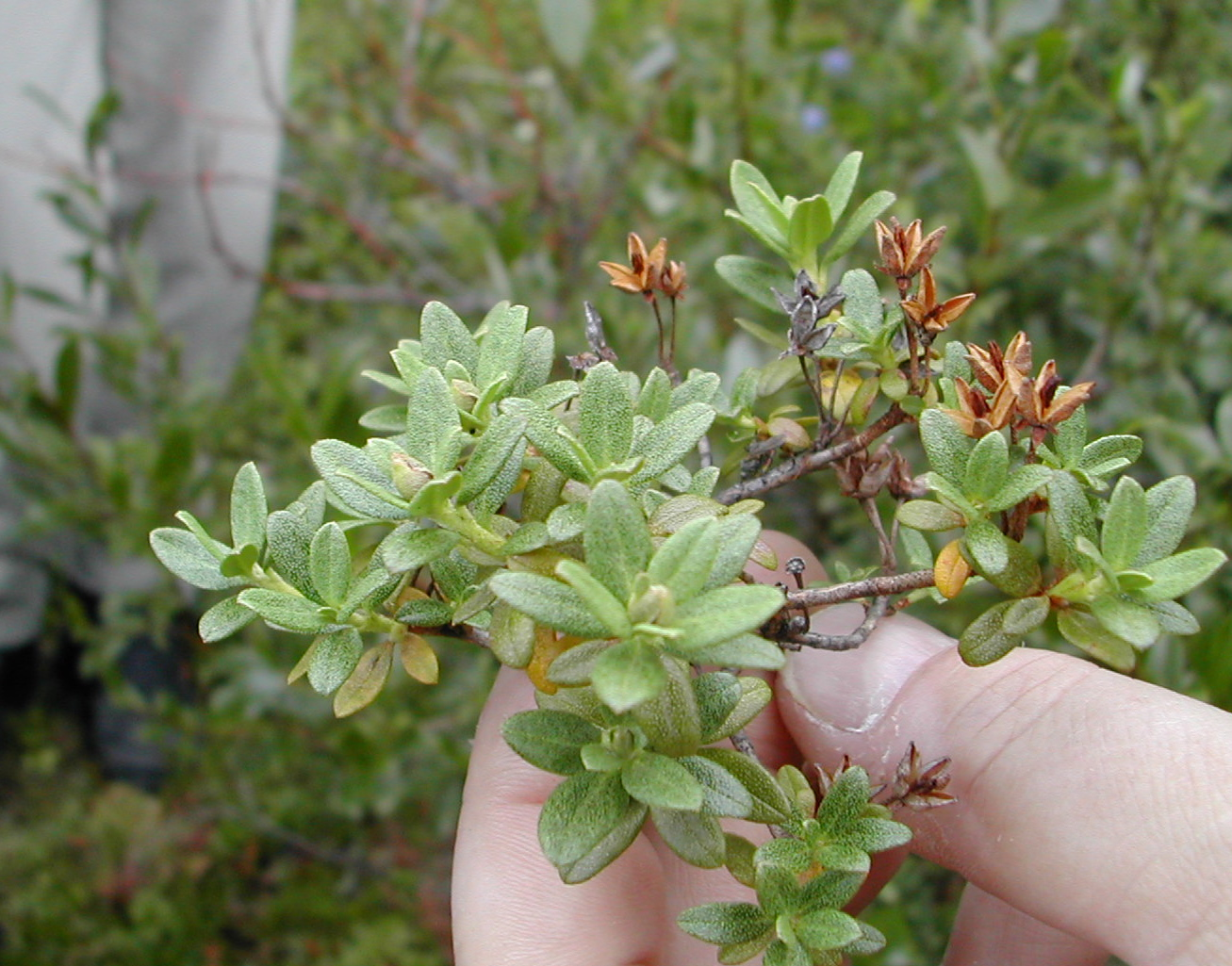 Rhodondendron lapponicum habit and fruit